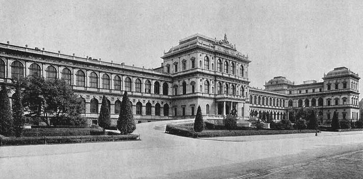 photo reproduction of old postcard of Munich Academie from ca 1910